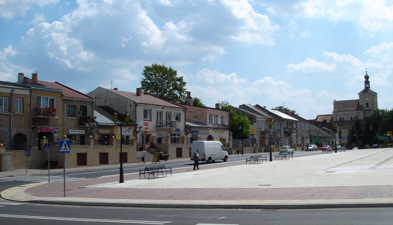 Szczebrzeszyn (Poland); T. Kościuszko Square